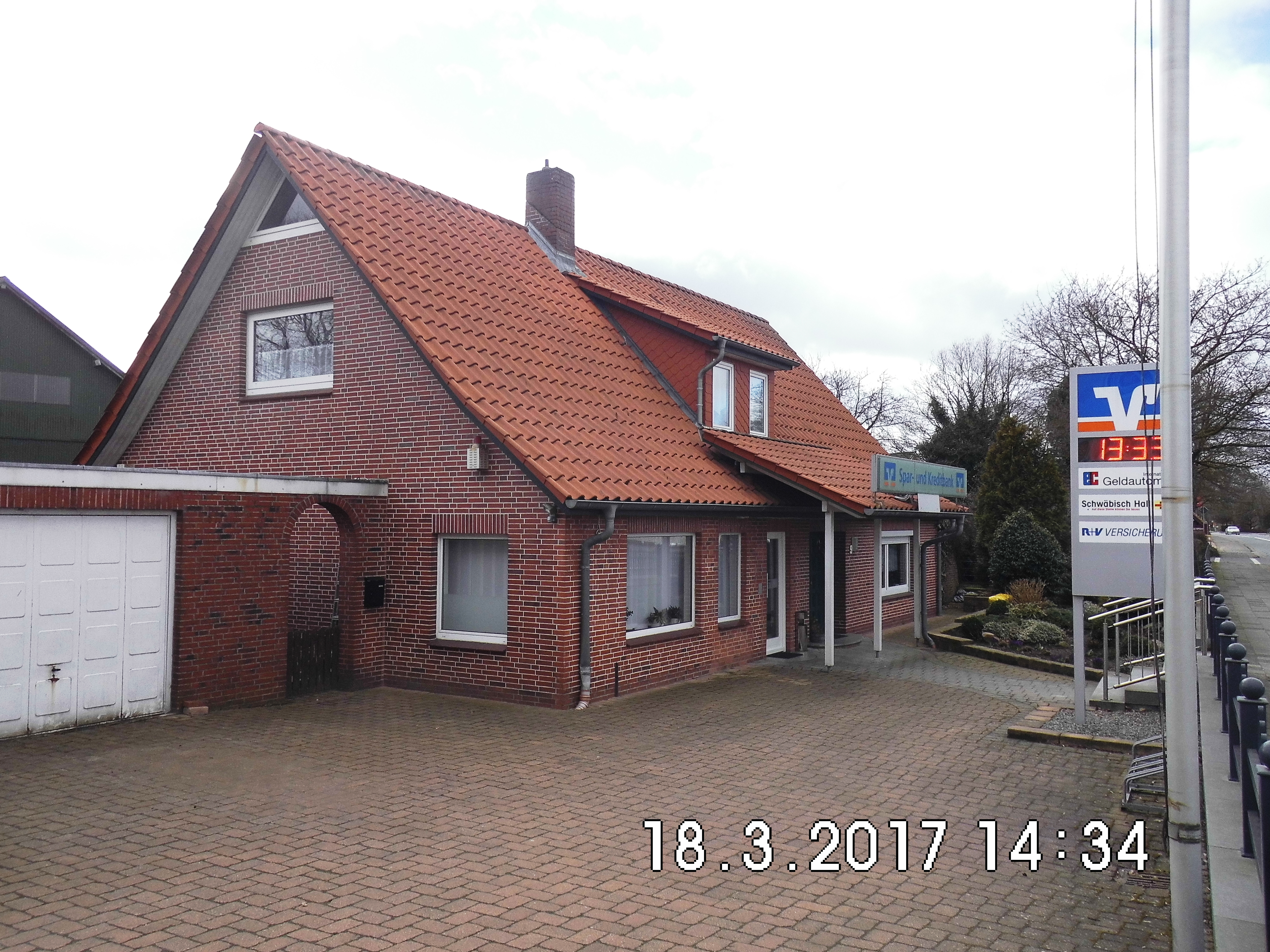 Cooperative bank in Düdenbüttel